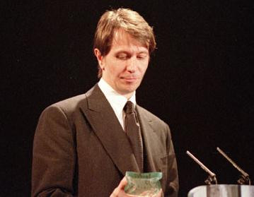 Gary Oldman in 2000, photographed and scanned from analogue, most specks removed (further cropped from original)